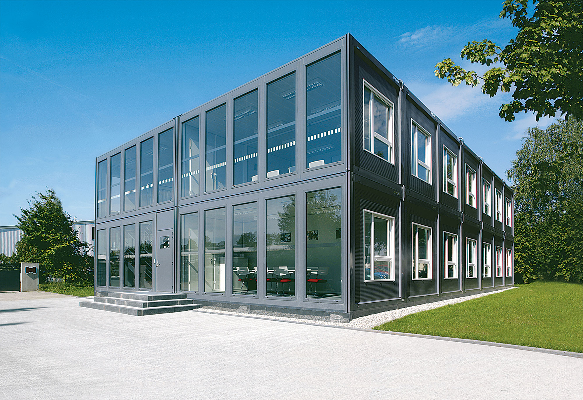 Algeco modular office building